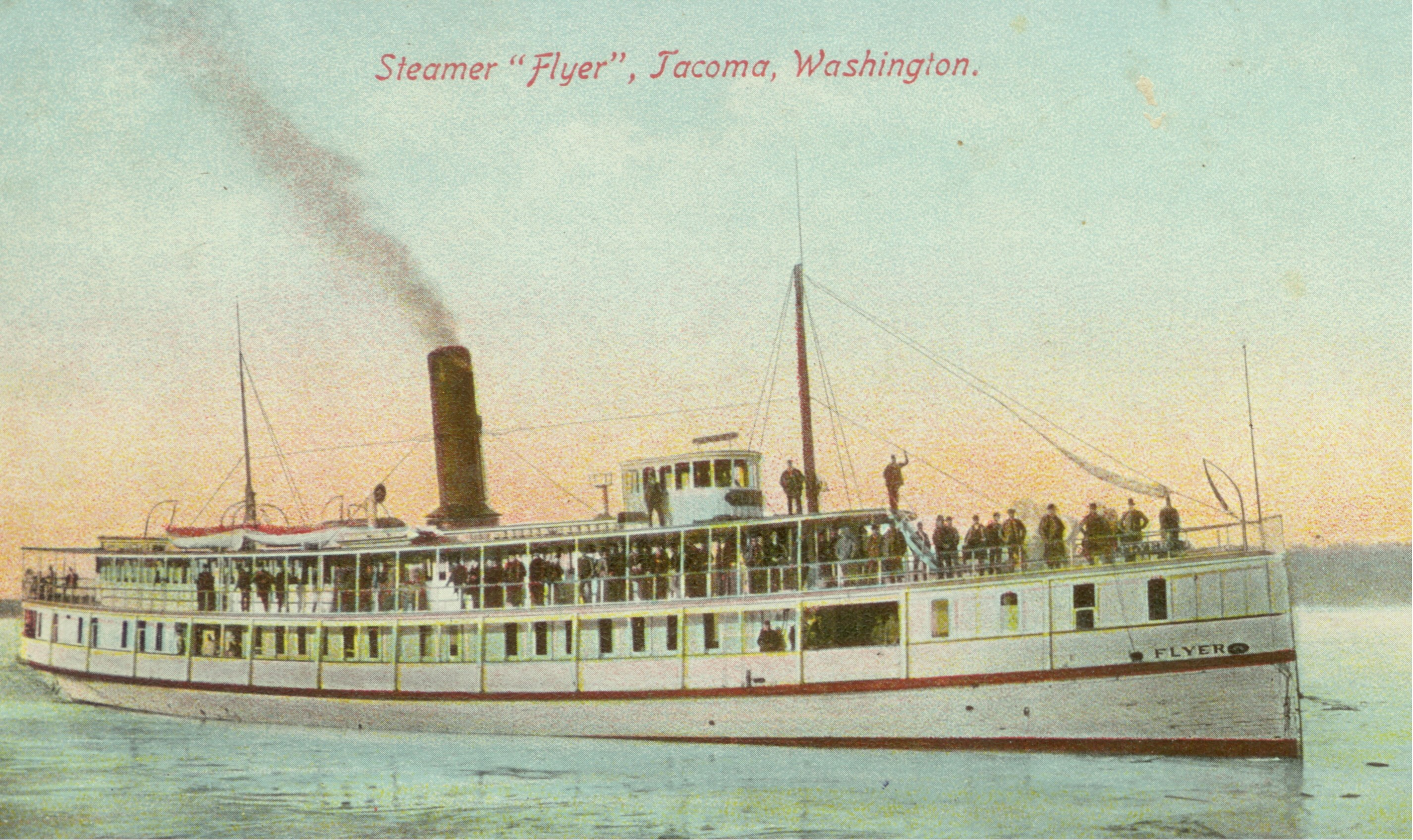 Flyer steamboat on Puget Sound, ca 1910